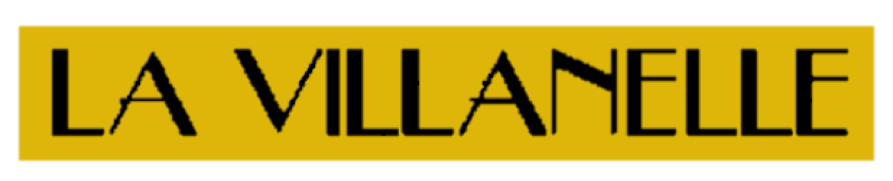 "La Villanelle" in simple font, black on gold